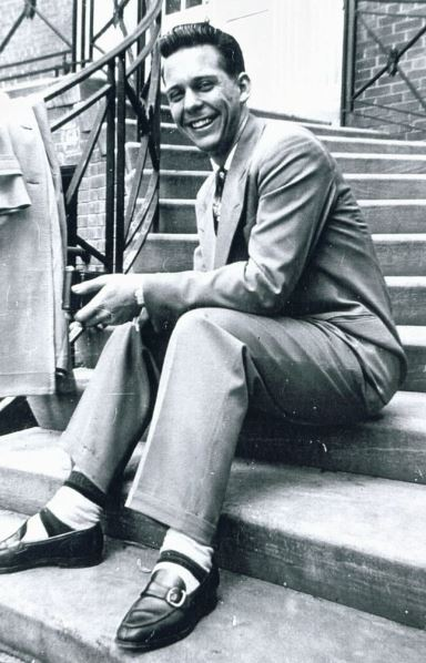 Image of Paul Carlson and his family